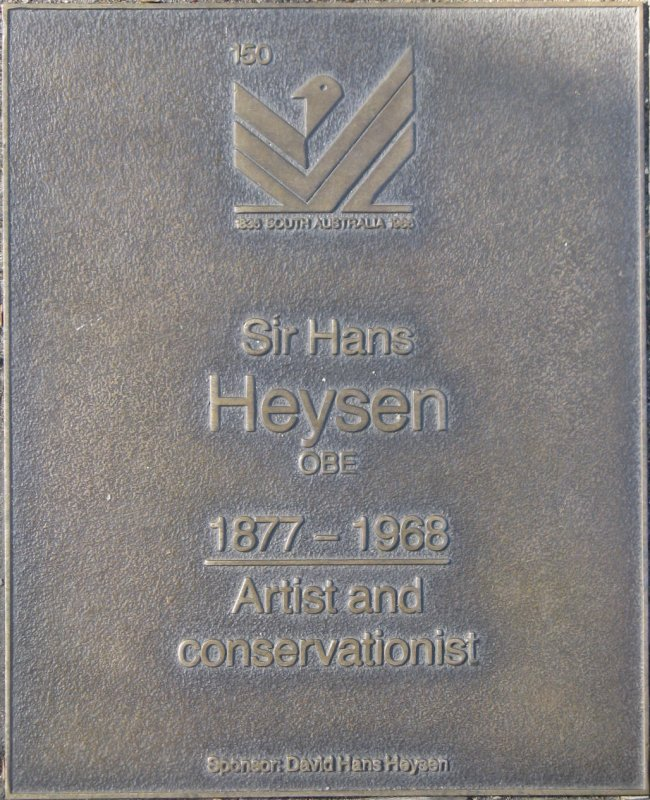 Jubilee 150 Walkway Plaque commemorating Hans Heysen